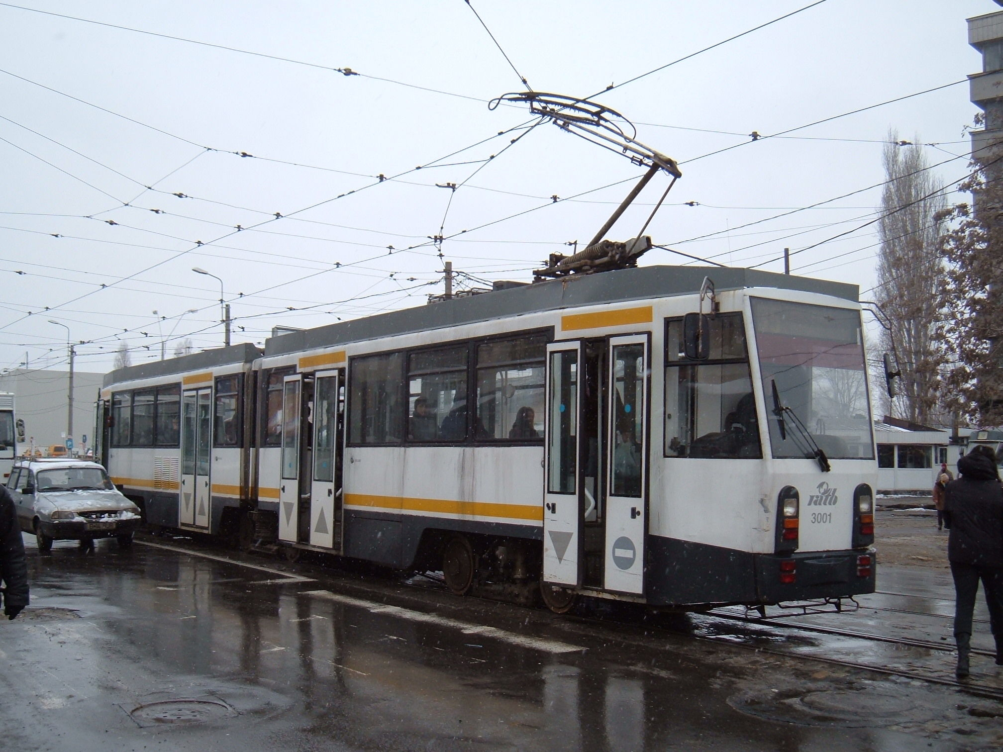 Tram in Bucharest, Romania (Bucur V2S type). RATB București company.